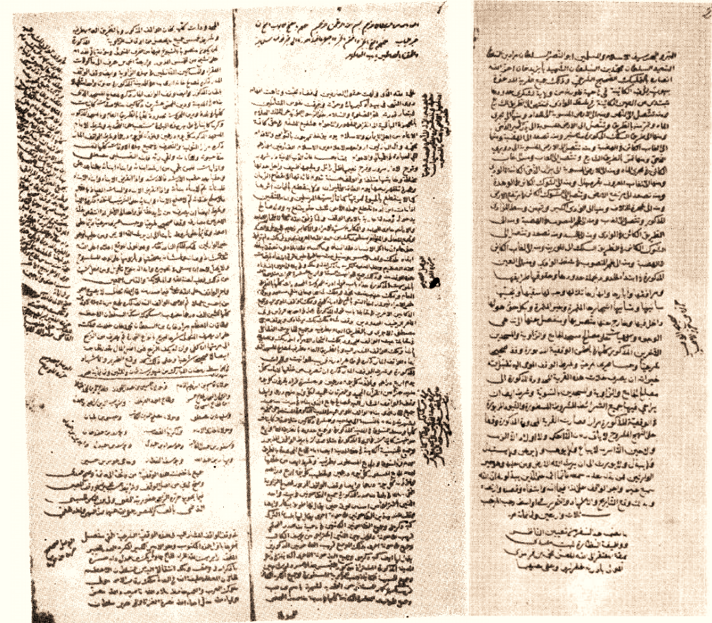 Ottoman Vakuf Document from Bitola, 1435